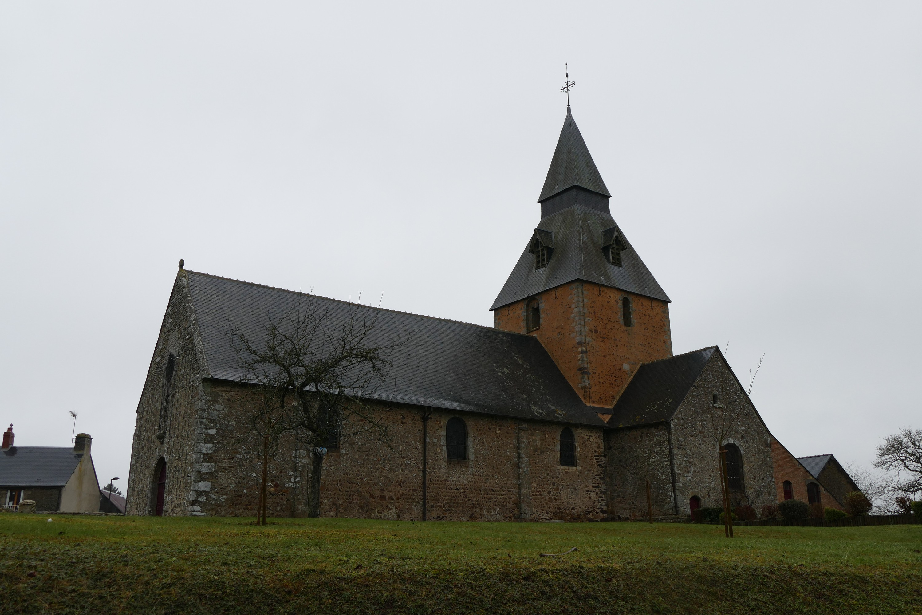 Saint-Peter-and-Saint-Paul's church in La Roche-Mabile (Orne, Normandie, France).